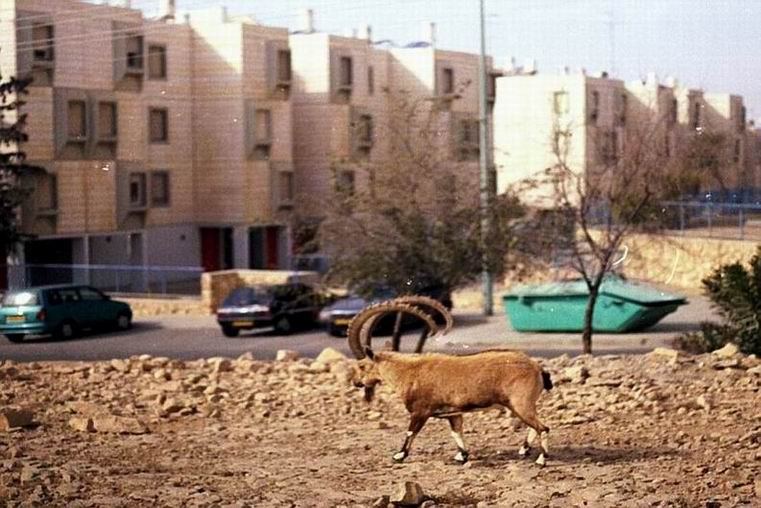 Mizpe Ramon created by he:משתמש:בן הטבע